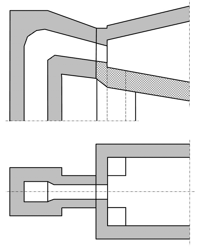 März fire head for open hearth furnaces